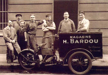 Parisian delivery men at the begining of the 20th century. Paris 17th district. Grocery Bardou